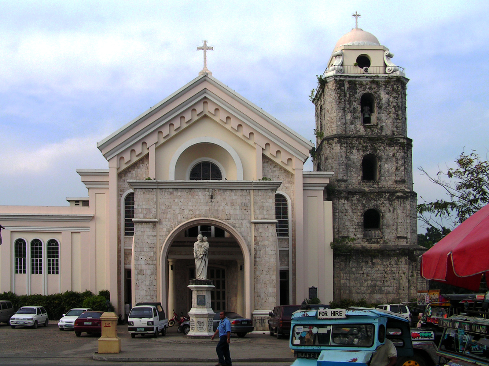 Saint Joseph the Worker Cathedral in Tagbilaran City, Bohol, Philippines